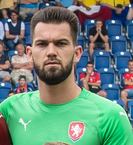 1/6/18St. Poelten, Austria, sports, football, International friendly - Australia vs Czech Republic. Image shows the team of Czech Republic.